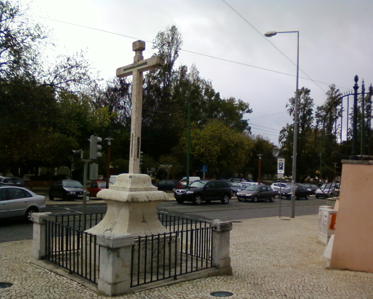 Cruzeiro de Algés